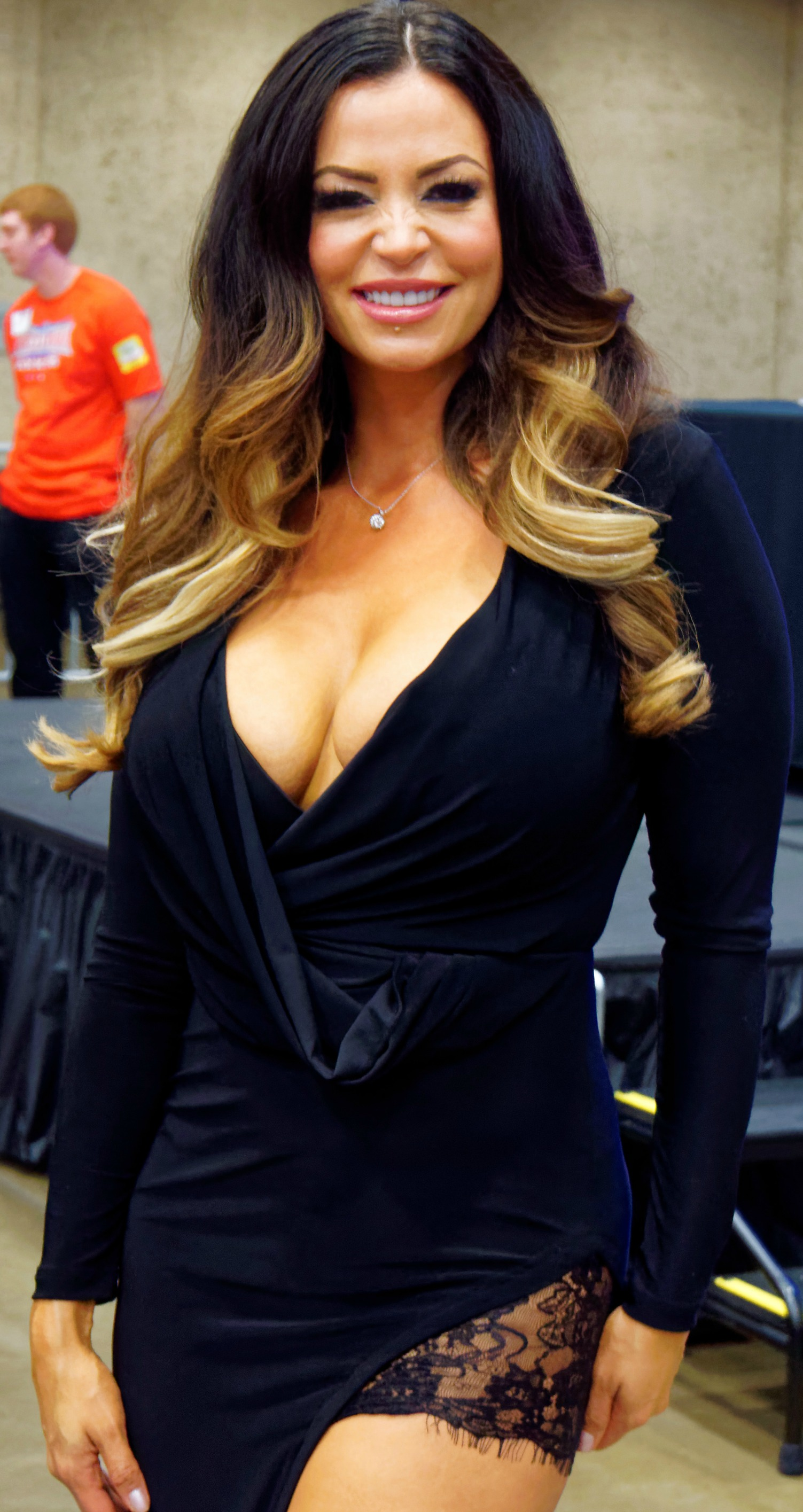 Candice Michelle during the WrestleMania 32 Axxess on April 2, 2016.